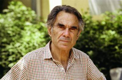 Photograph